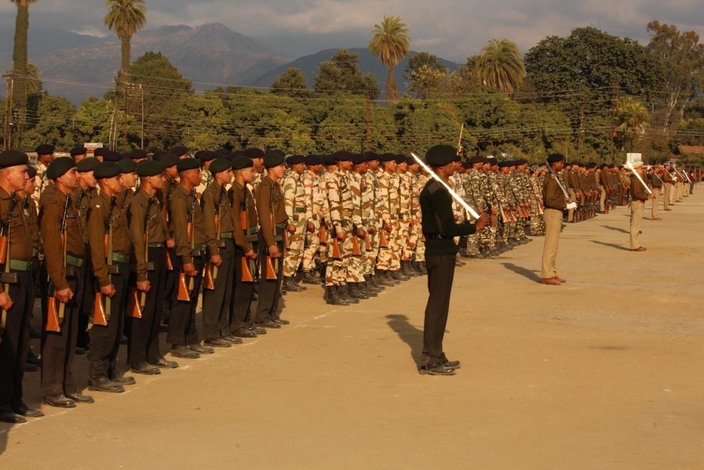 Various division of Uttarakhand and Dehradun Police during the Republic Day Preparations 2015